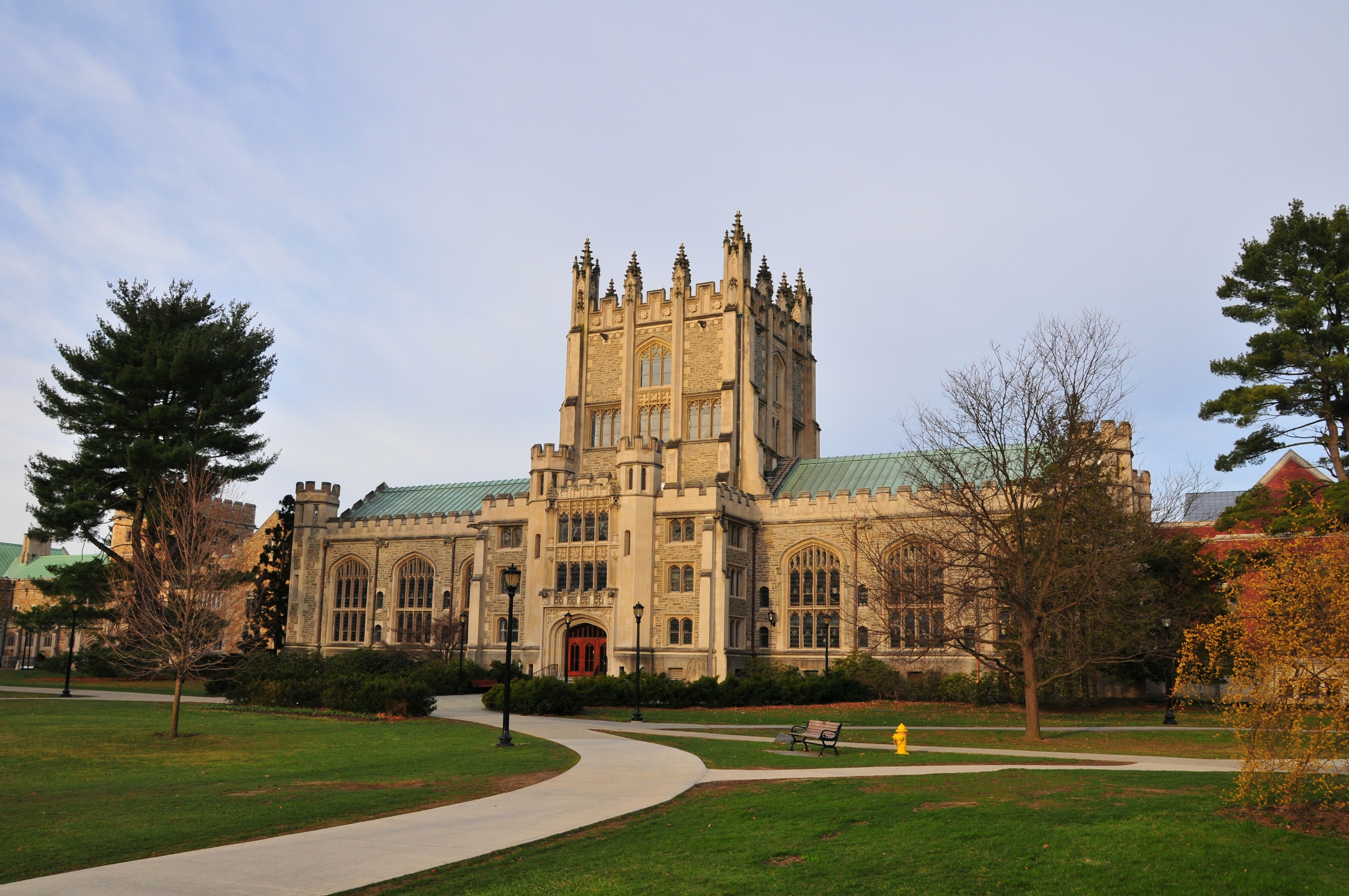 Thompson Memorial Library external view, Vassar College